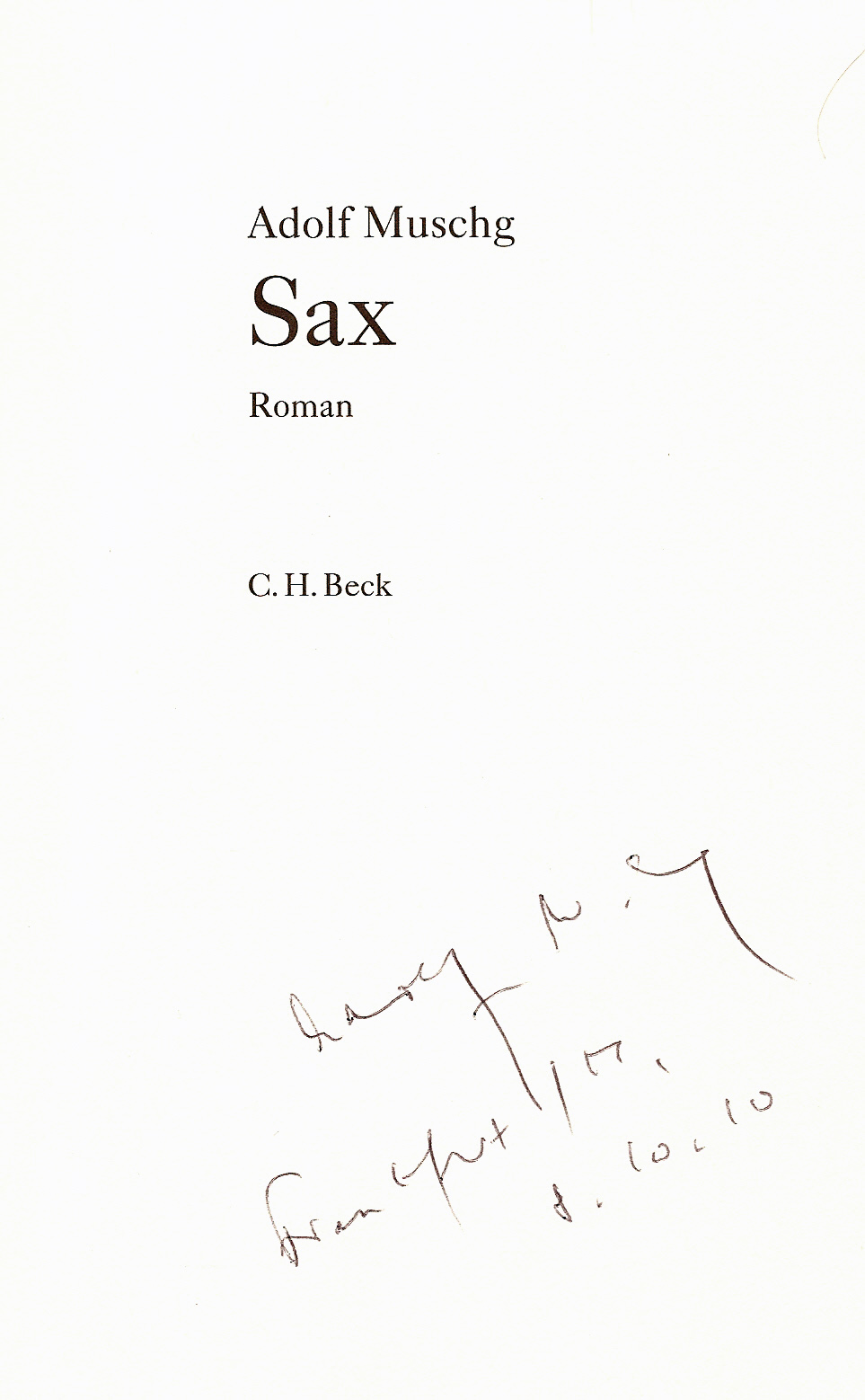 Autograph of Adolf Muschg (a writer and literature professor from Switzerland), 2010 in Frankfurt am Main, Germany.